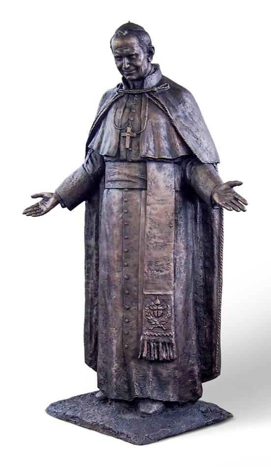 Pope John Paul II in Toruń, Poland. Sculpture by Giennadij Jerszow 2014